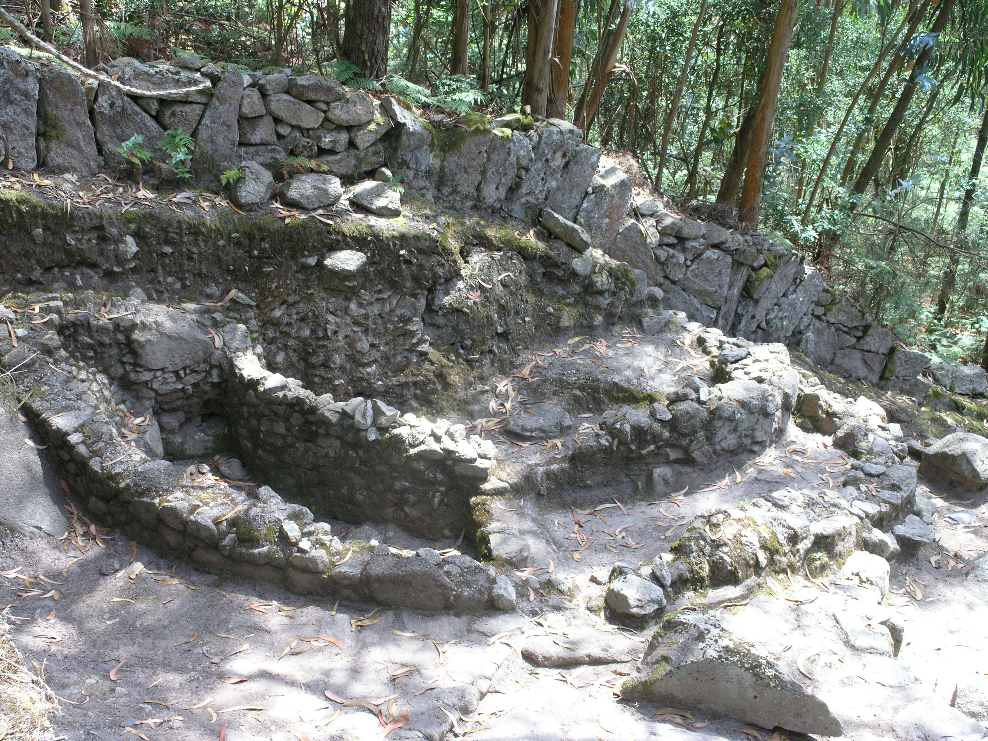 Castro de Moldes, in Castelo do Neiva, PORTUGAL